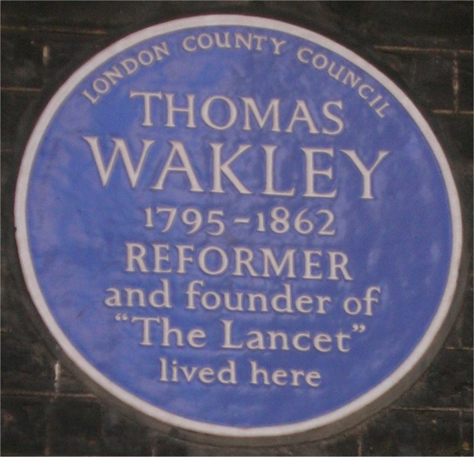 Blue plaque to Thomas Wakley on his house in Bedford Square, London, England. Photographed by me 29 September 2006. Oosoom